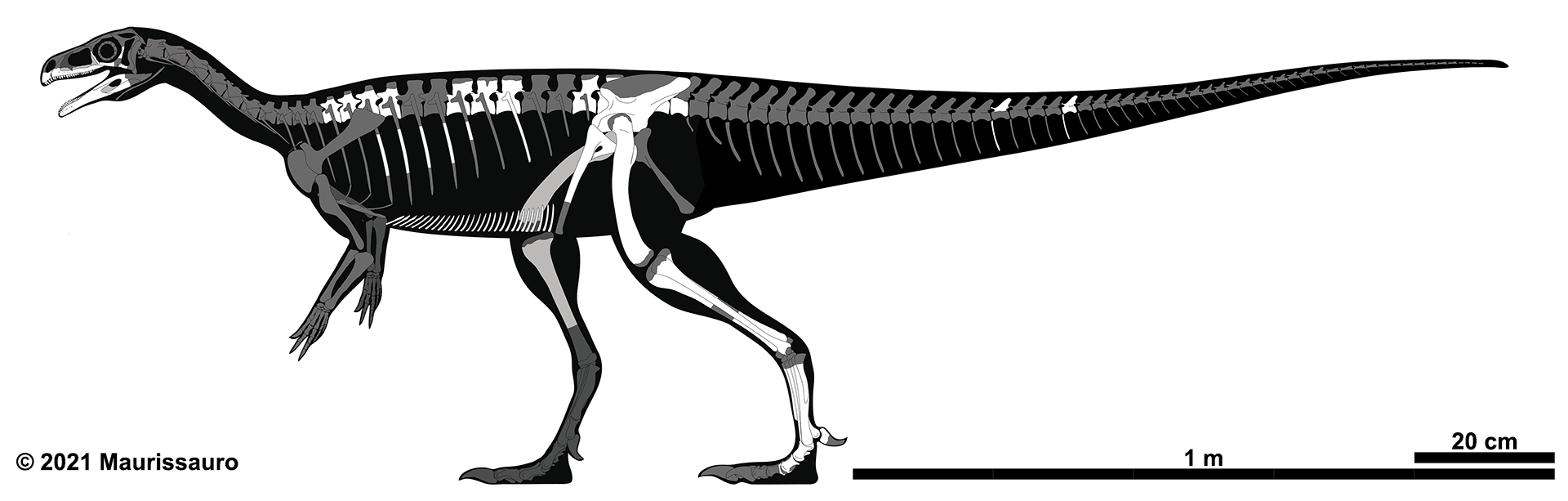 Digital drawing of the known skeletal remains of Bagualosaurus agudoensis (some elements have been reflected).